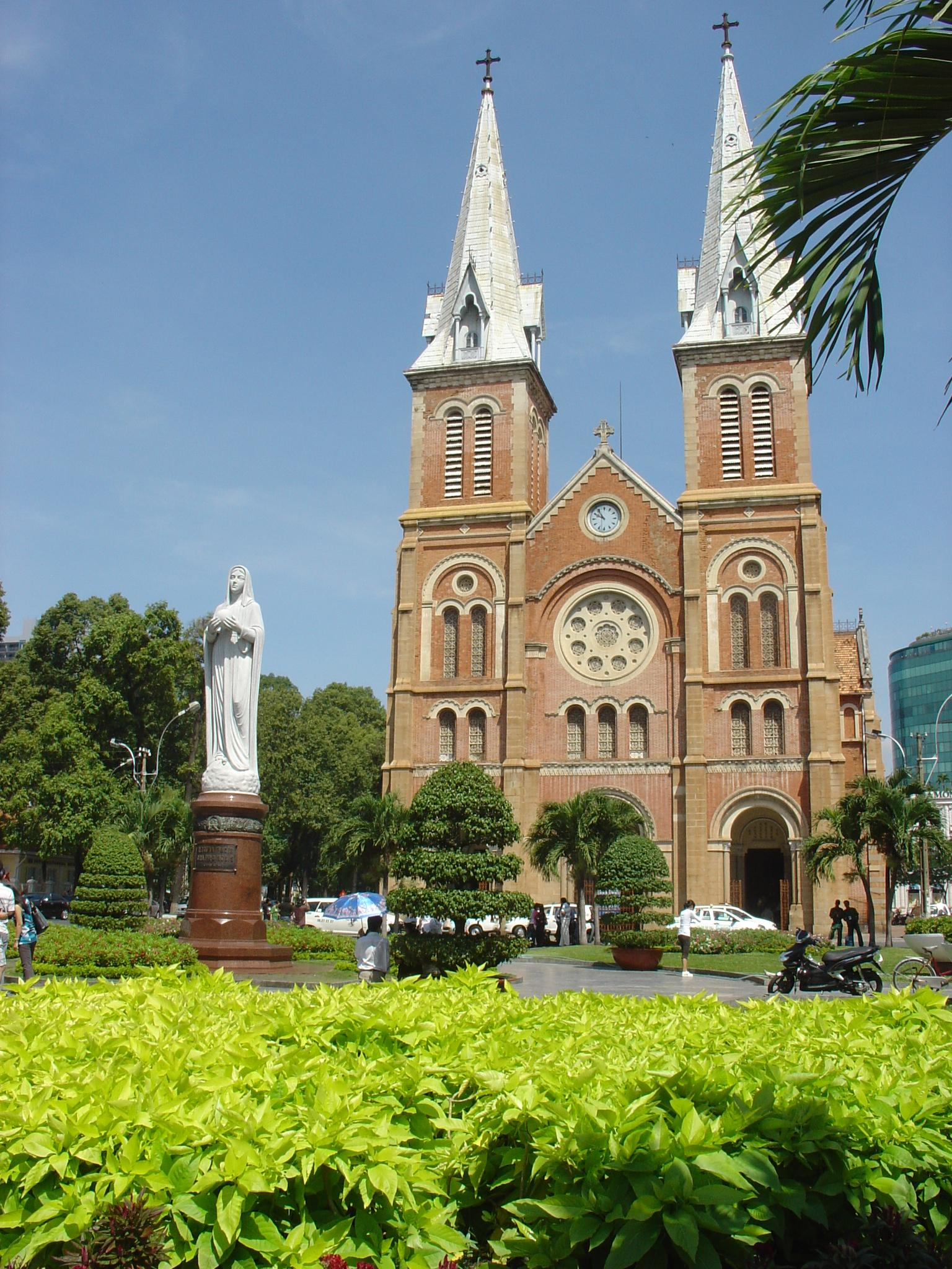 Notre Dame Cathedral, Ho Chi Minh City, Vietnam